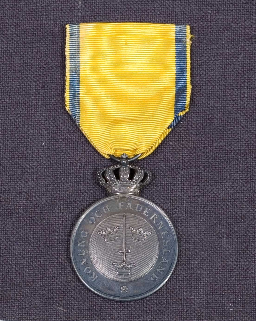 Svärdsmedaljens